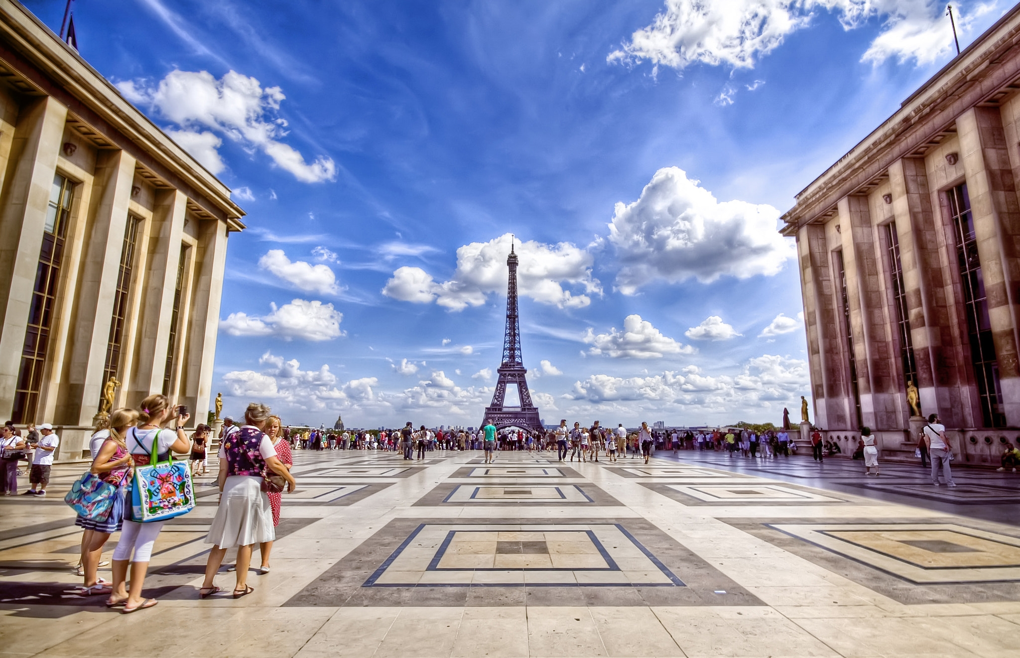 500px provided description: Eiffel [#tower ,#paris ,#eiffel]